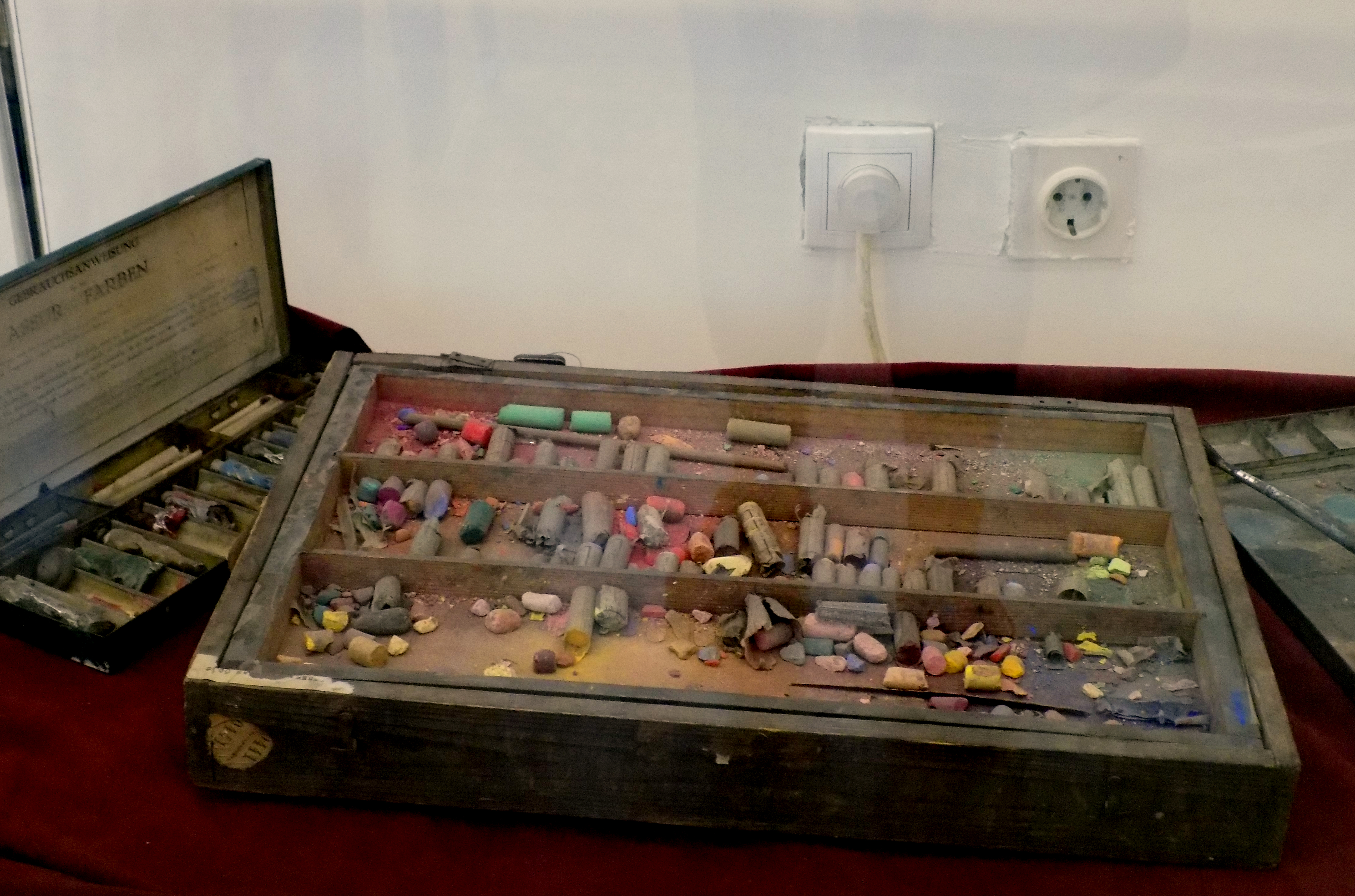 Milena Pavlović-Barili Gallery (Milena's home) - Milena's painting accessories